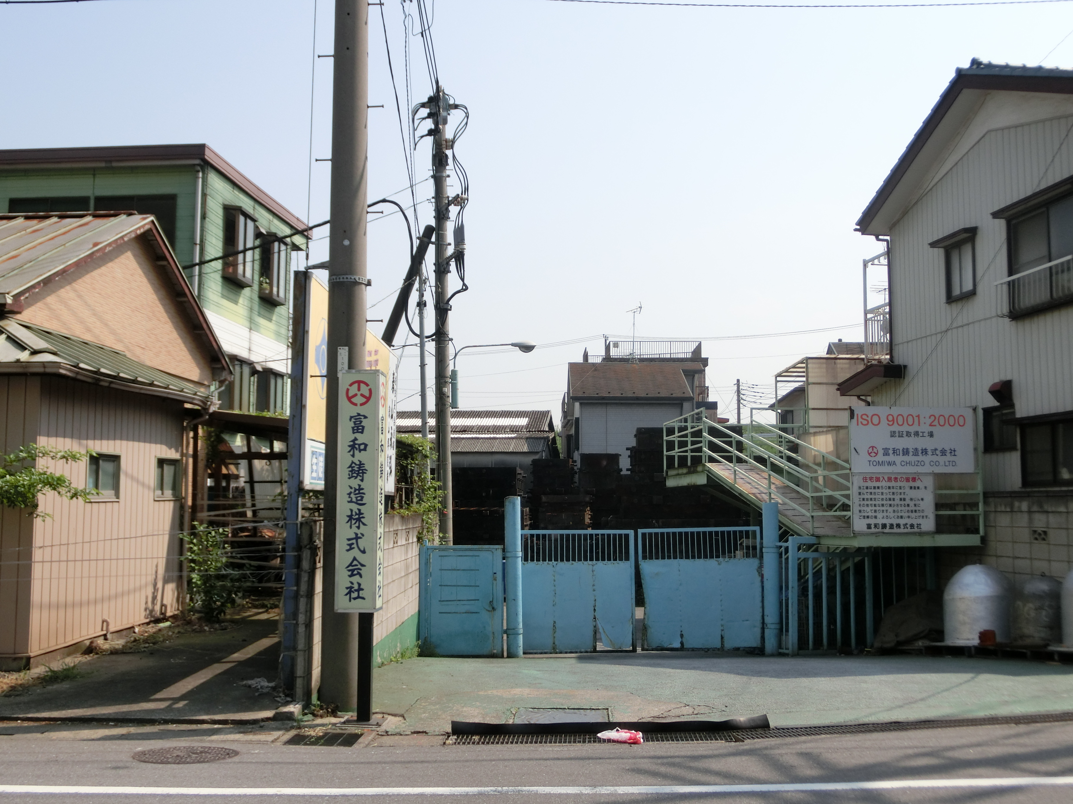 Tomiwa Chuzo Head Office